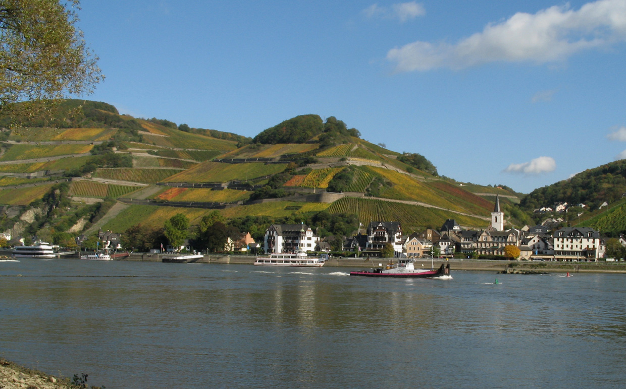 The village of Assmannshausen on the Middle Rhine